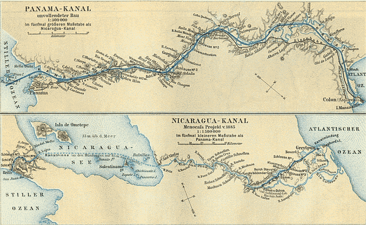 Historic map of the unfinished Panama canal and a planned Nicaragua canal.